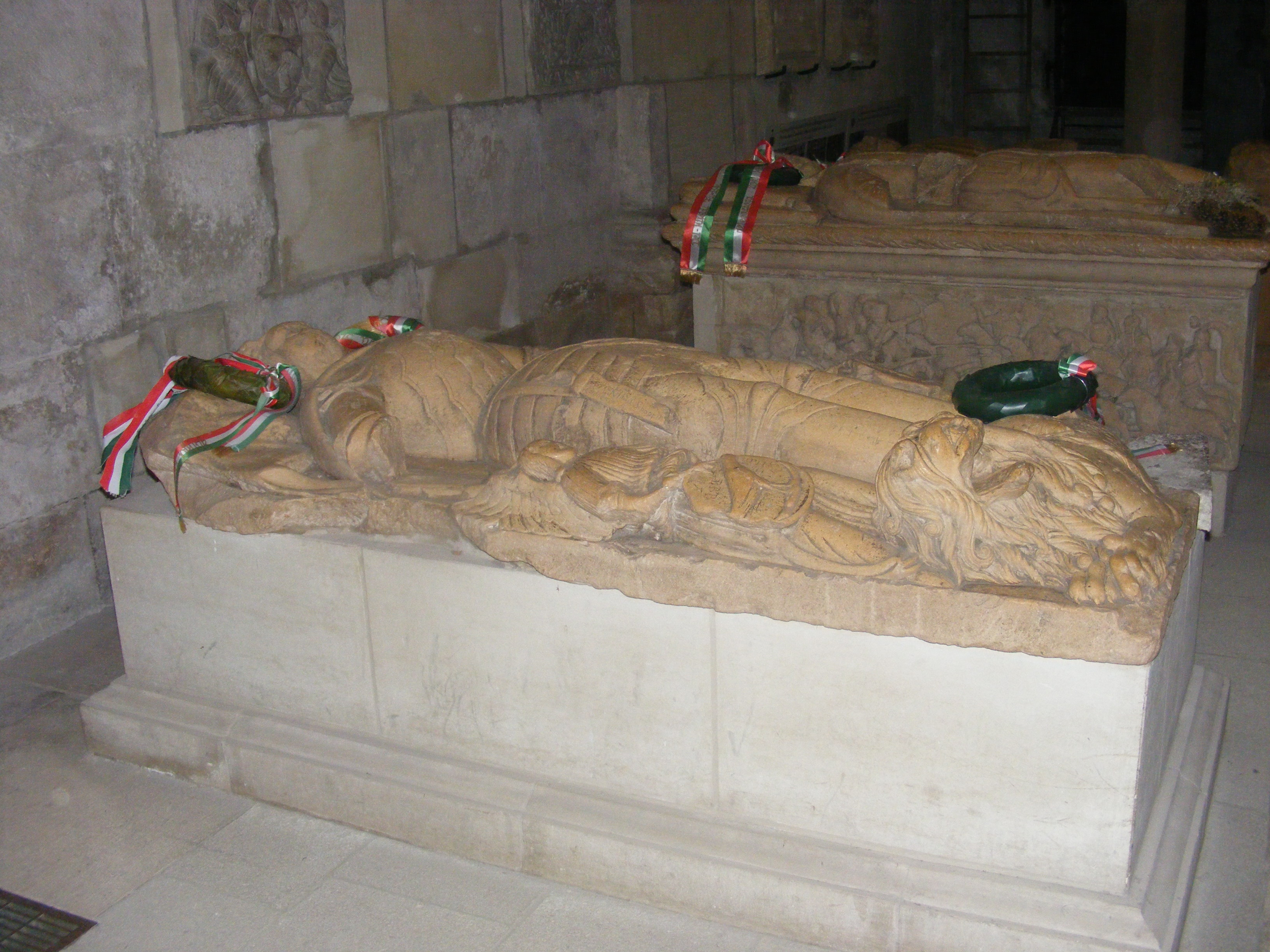 The grave of Hunyadi László